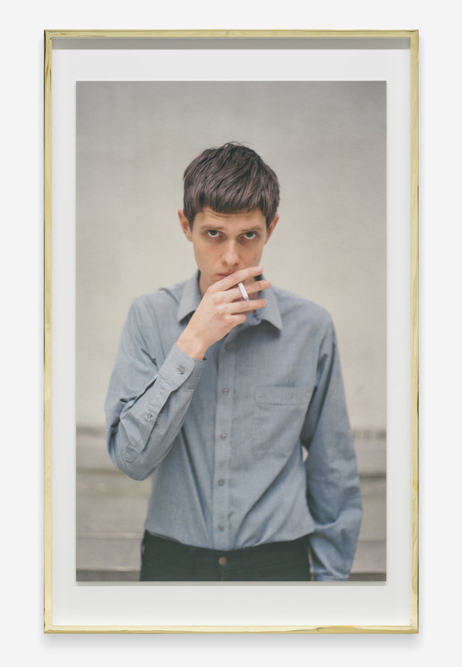 Photograph of the artist's doppelgänger as Ian Curtis